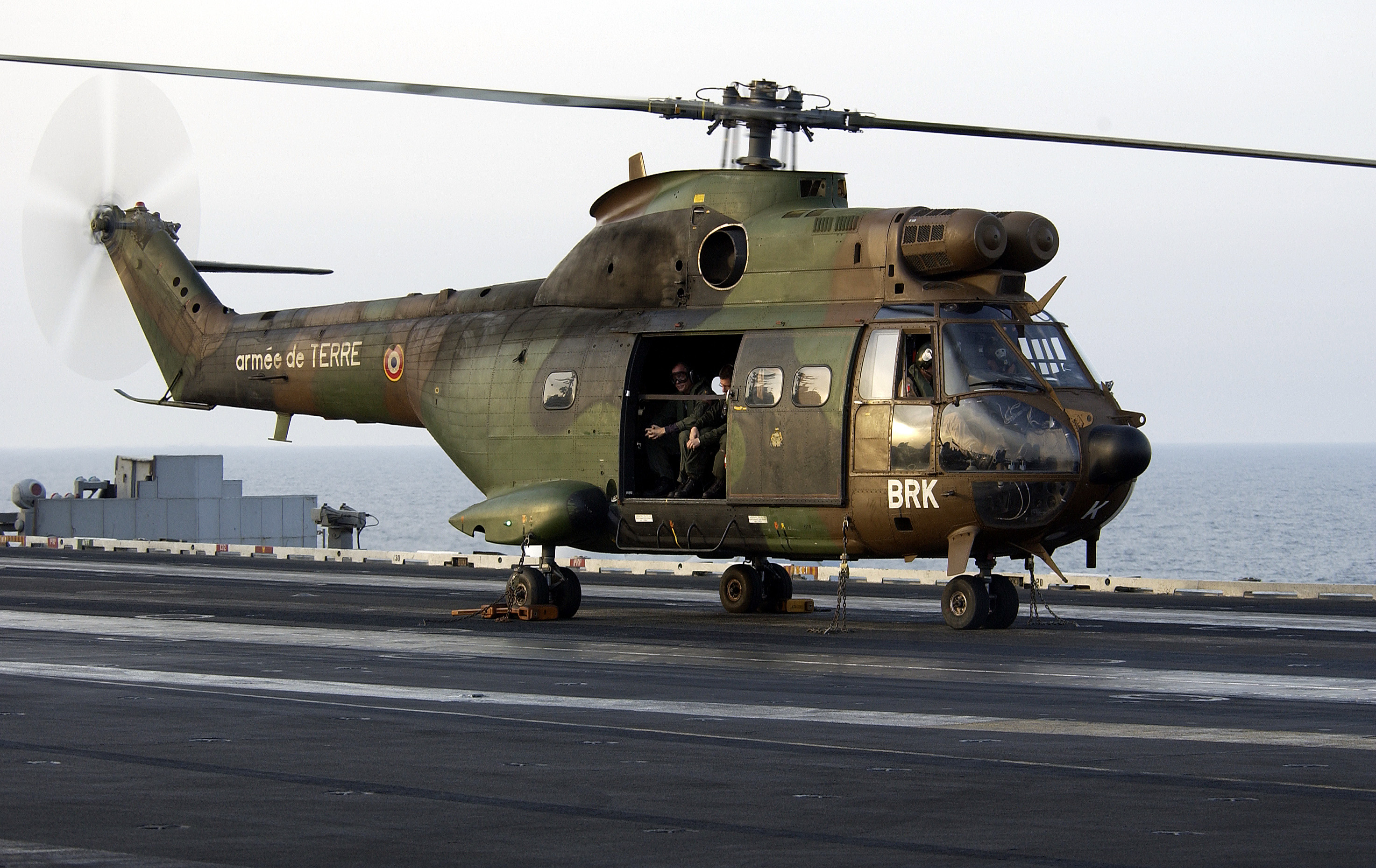 Rear Adm. Denby H. Starling, Commander, Carrier Group Eight (CCG 8) returns to USS George Washington (CVN 73) in an SA 330B Puma helicopter assigned to the 38,000-ton French nuclear-powered aircraft carrier, Charles de Gaulle.